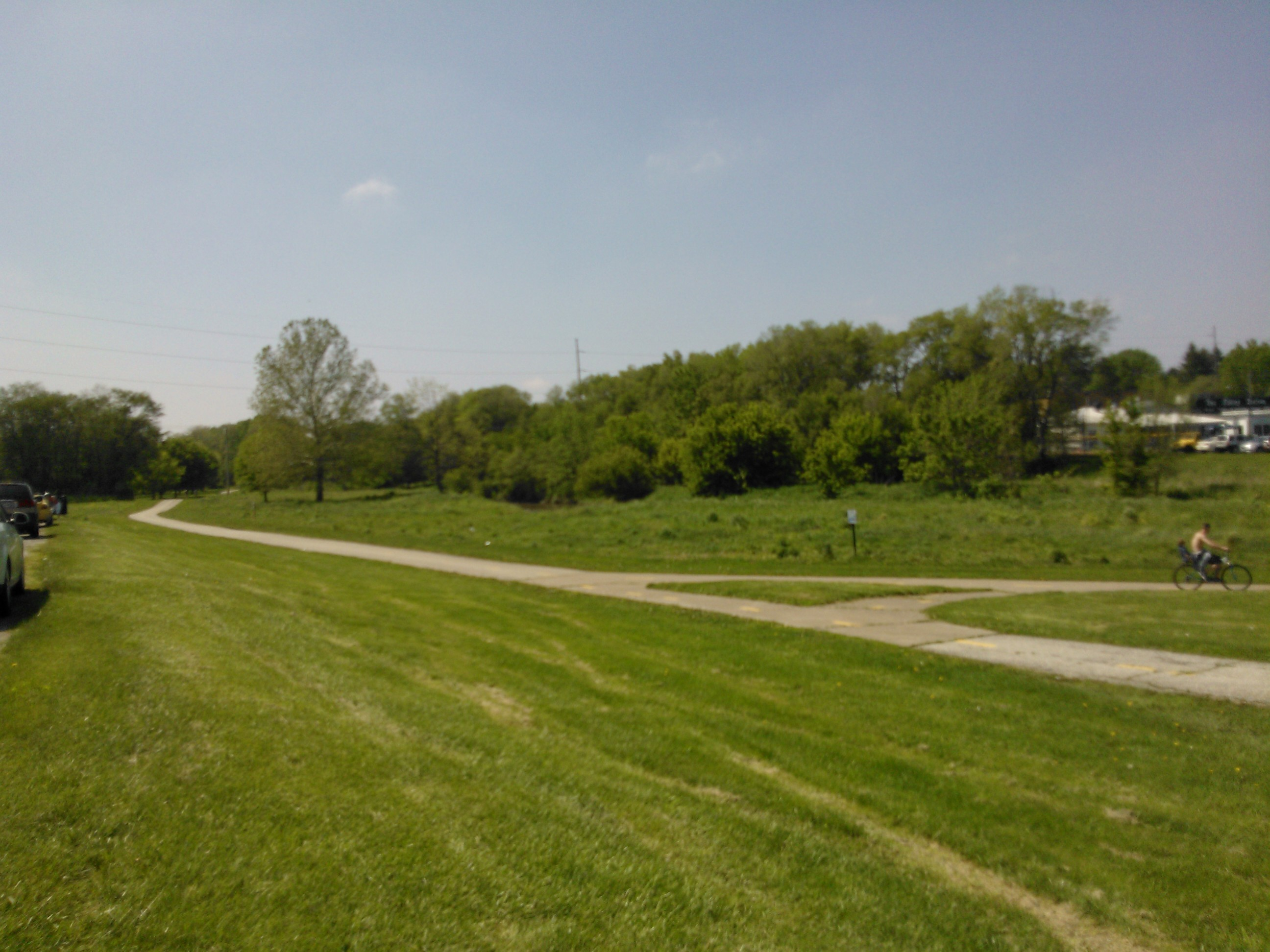 Duck Creek Parkway just west of Brady Street in Davenport, Iowa